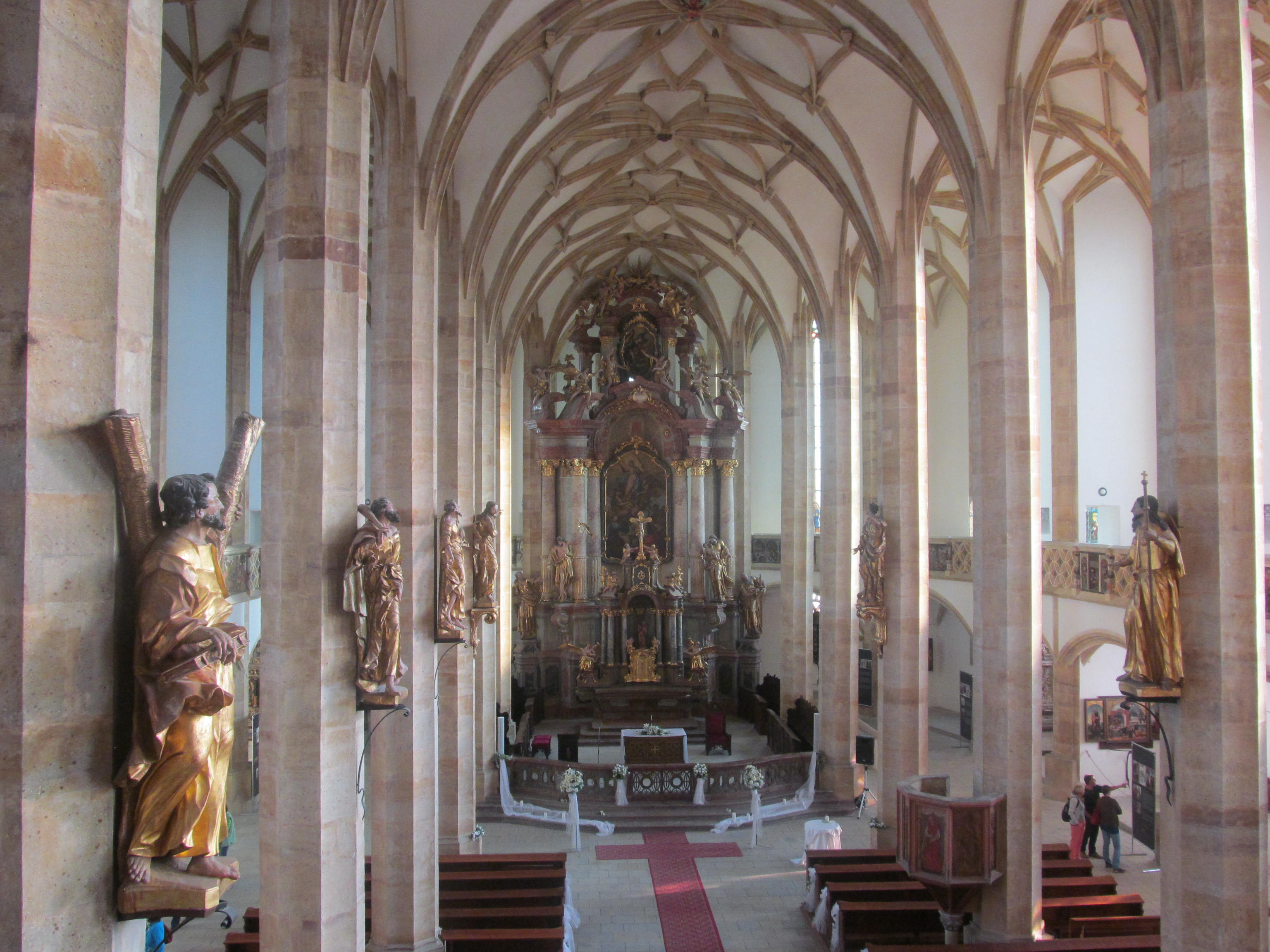 Interior of the Church in Most